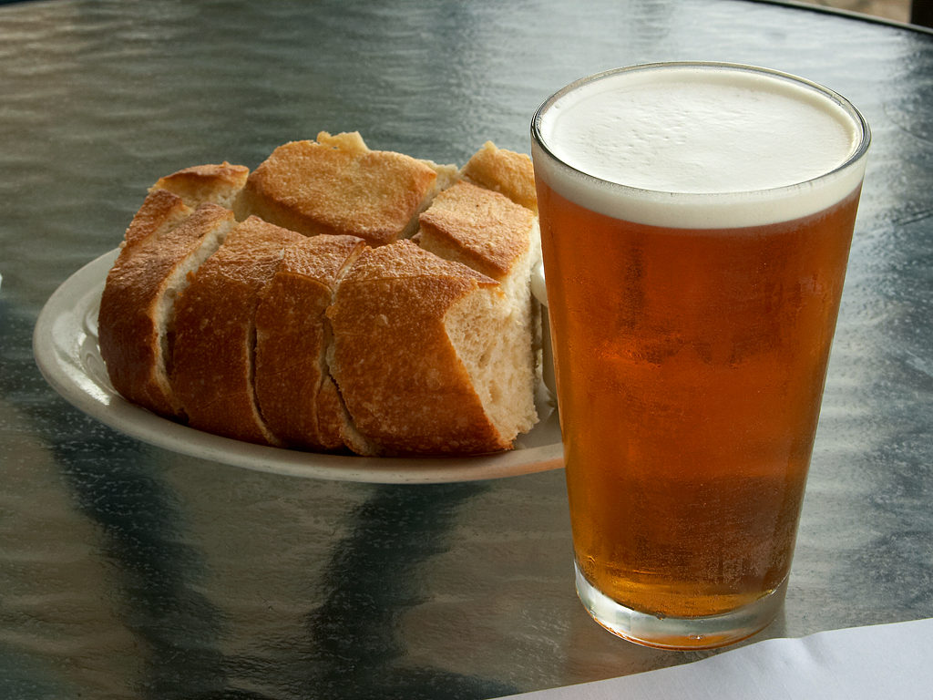 San Francisco sourdough bread with a pint of beer.